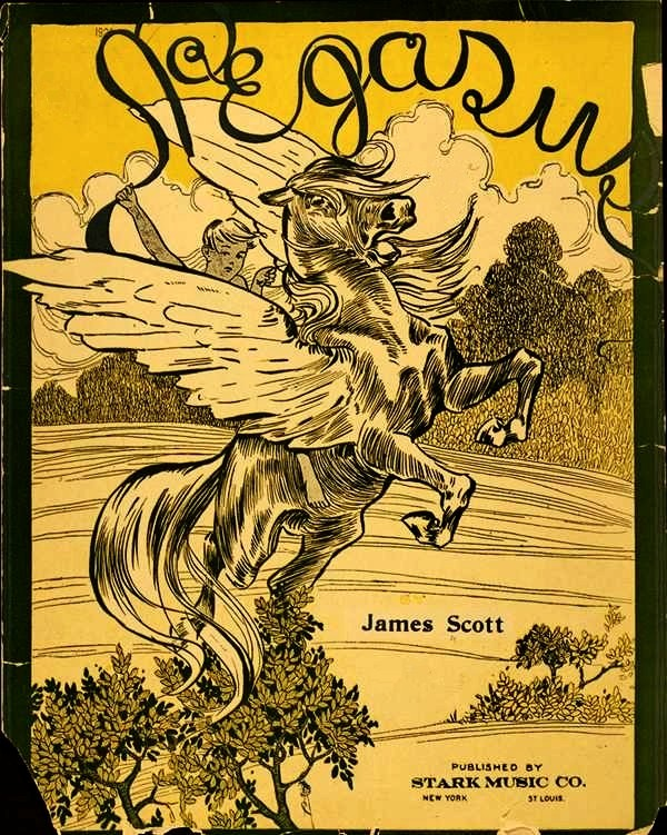 Pegasus, 1920